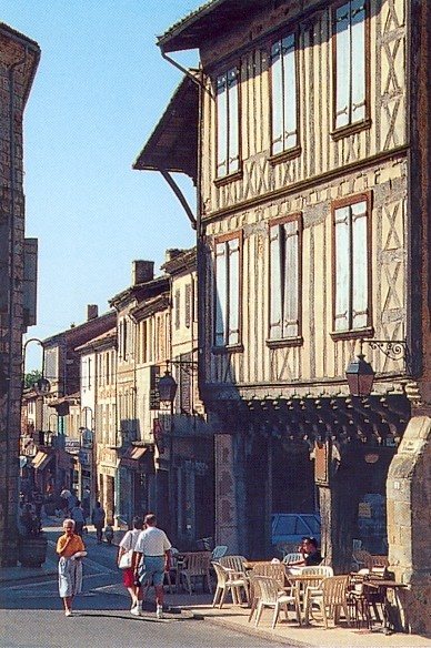 A street in Eauze (Gers, France).